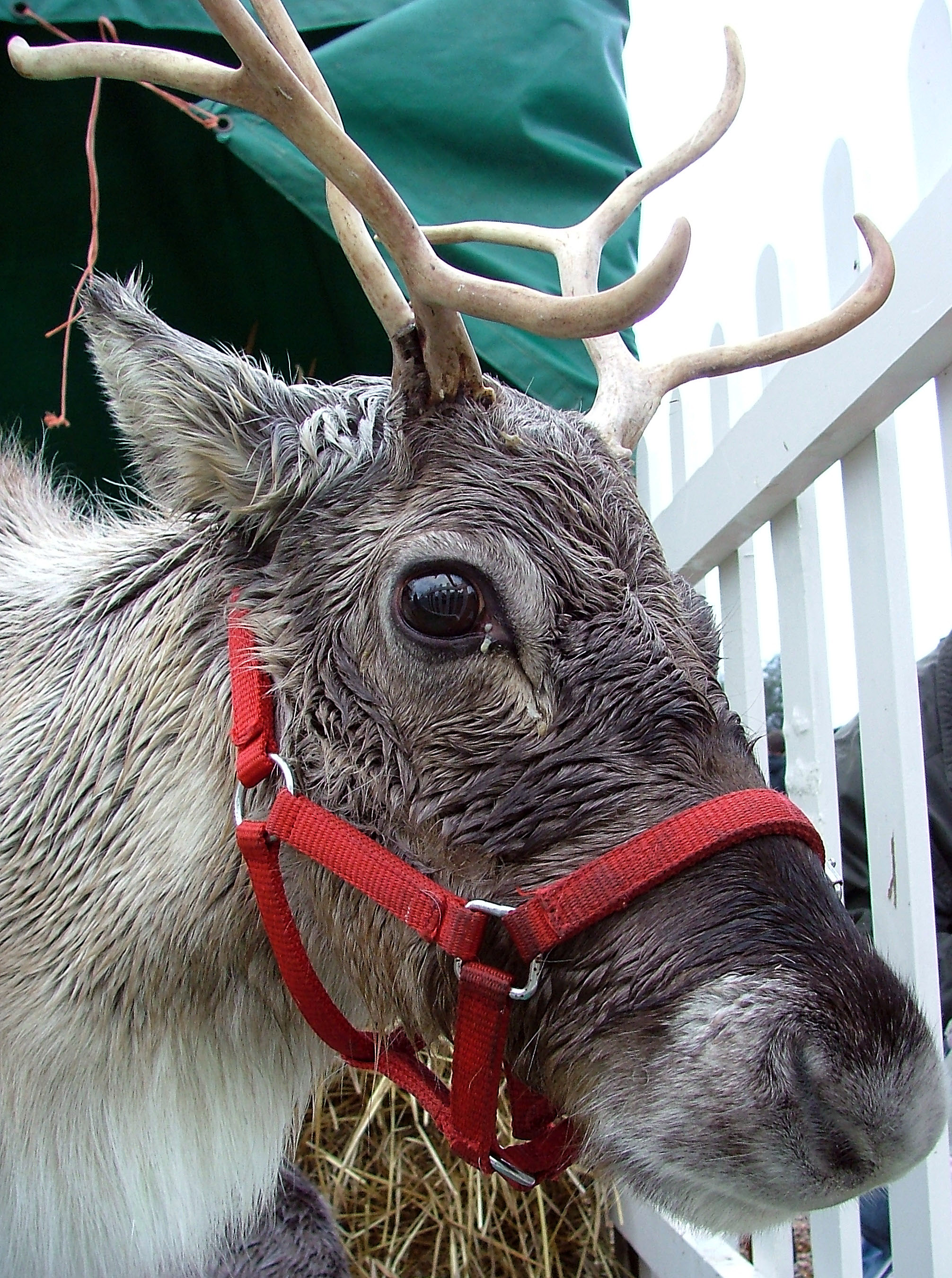 Closeup of raindeer with red bridle. - Hever Castle, Kent, England - December 2nd 2007.